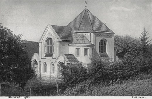 Synagogue in Ustroń